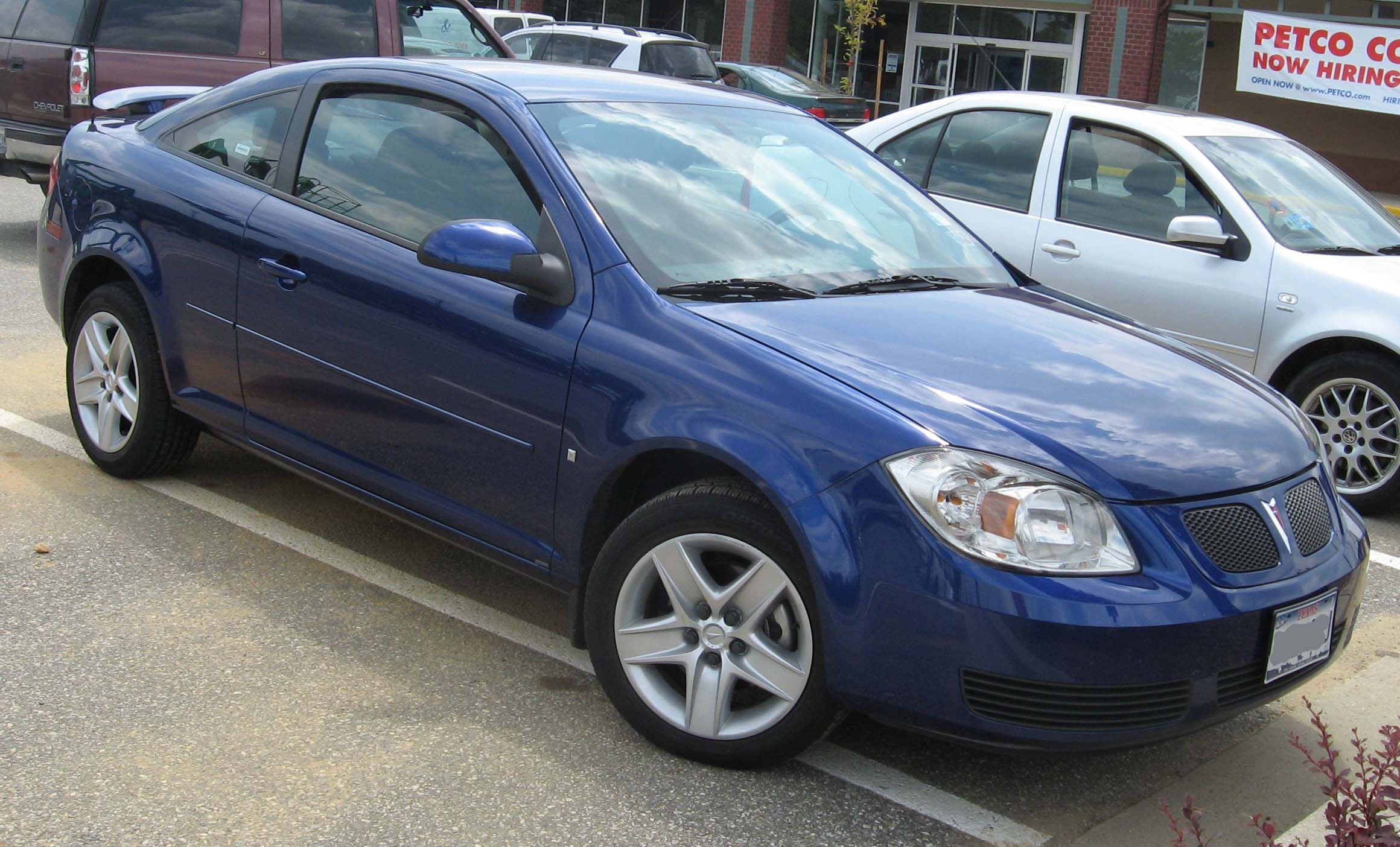 2007 Pontiac G5 photographed in USA.